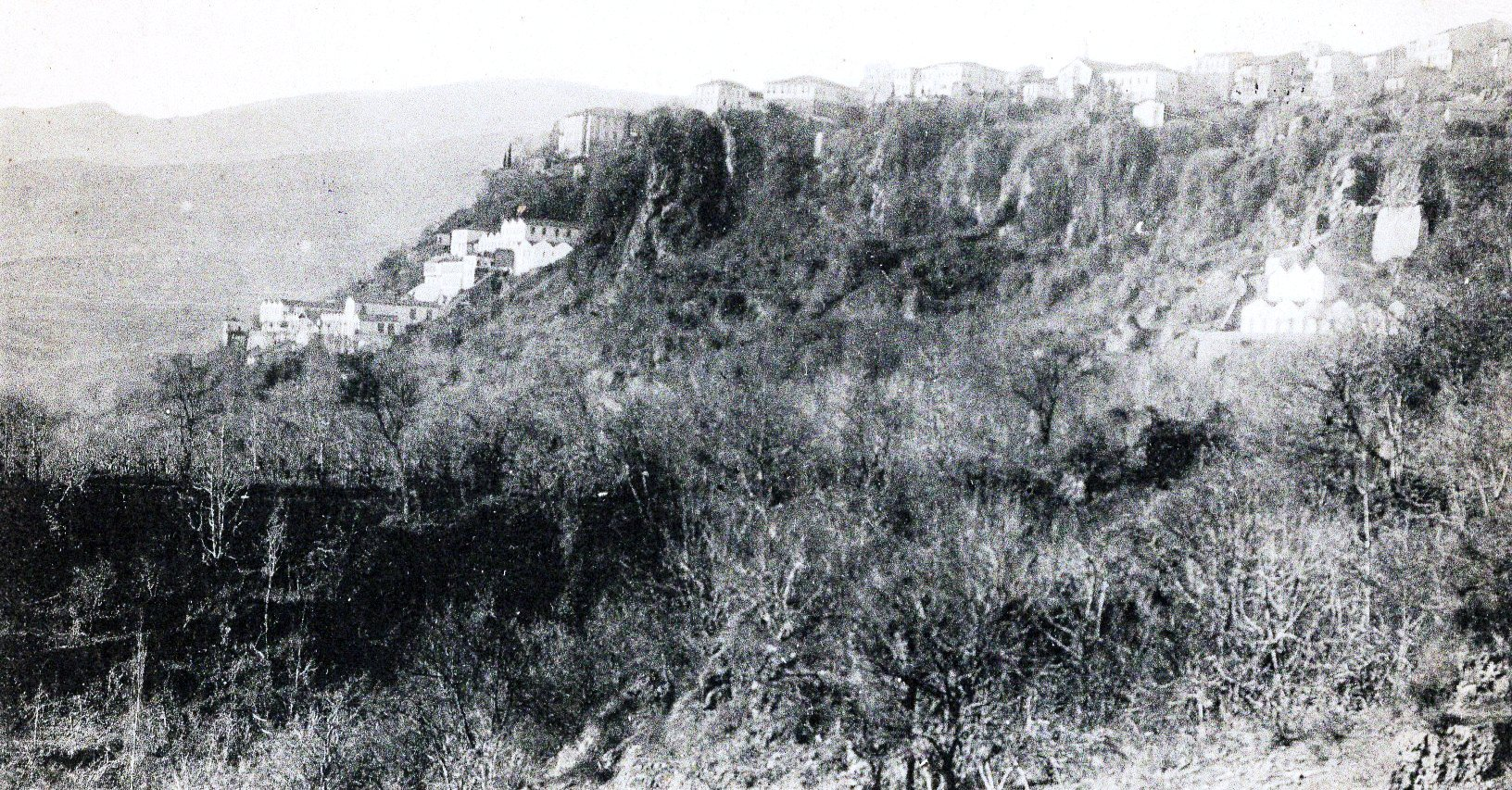 Postcard of Edessa, Greece, 1930's This media file is produced by Wikipedian in Residence in Category:Wikipedian in Residence at DARM in 2016.